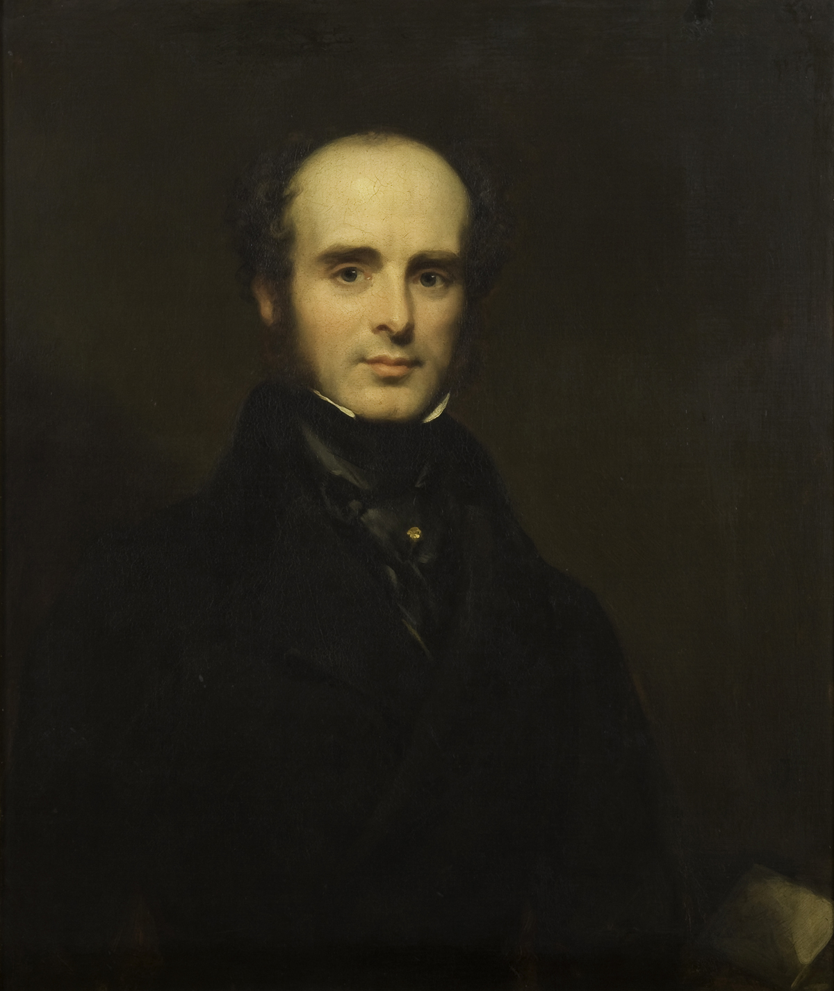 Portrait of James Hope (1801–1841), English physician.